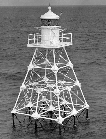 Downloaded from U.S. Coast Guard Historic Light Station Information & Photography - Florida - Caption: "Pacific Reef Light"; Photo No. 7CGD 100166 #35; photo dated 1966; photographer unknown.